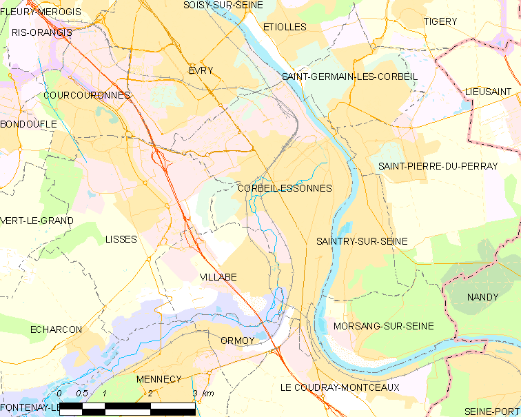 Map of French municipality Corbeil-Essonnes